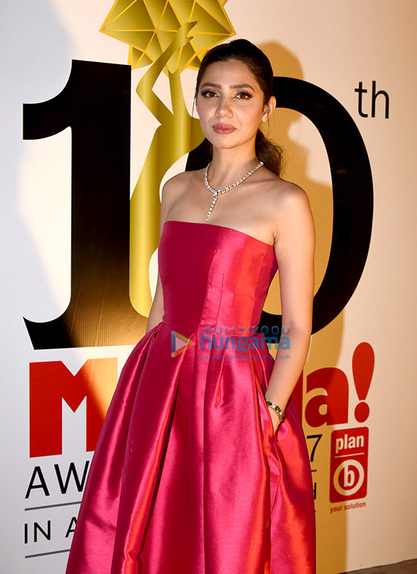 Mahira Khan graces Masala Awards 2017